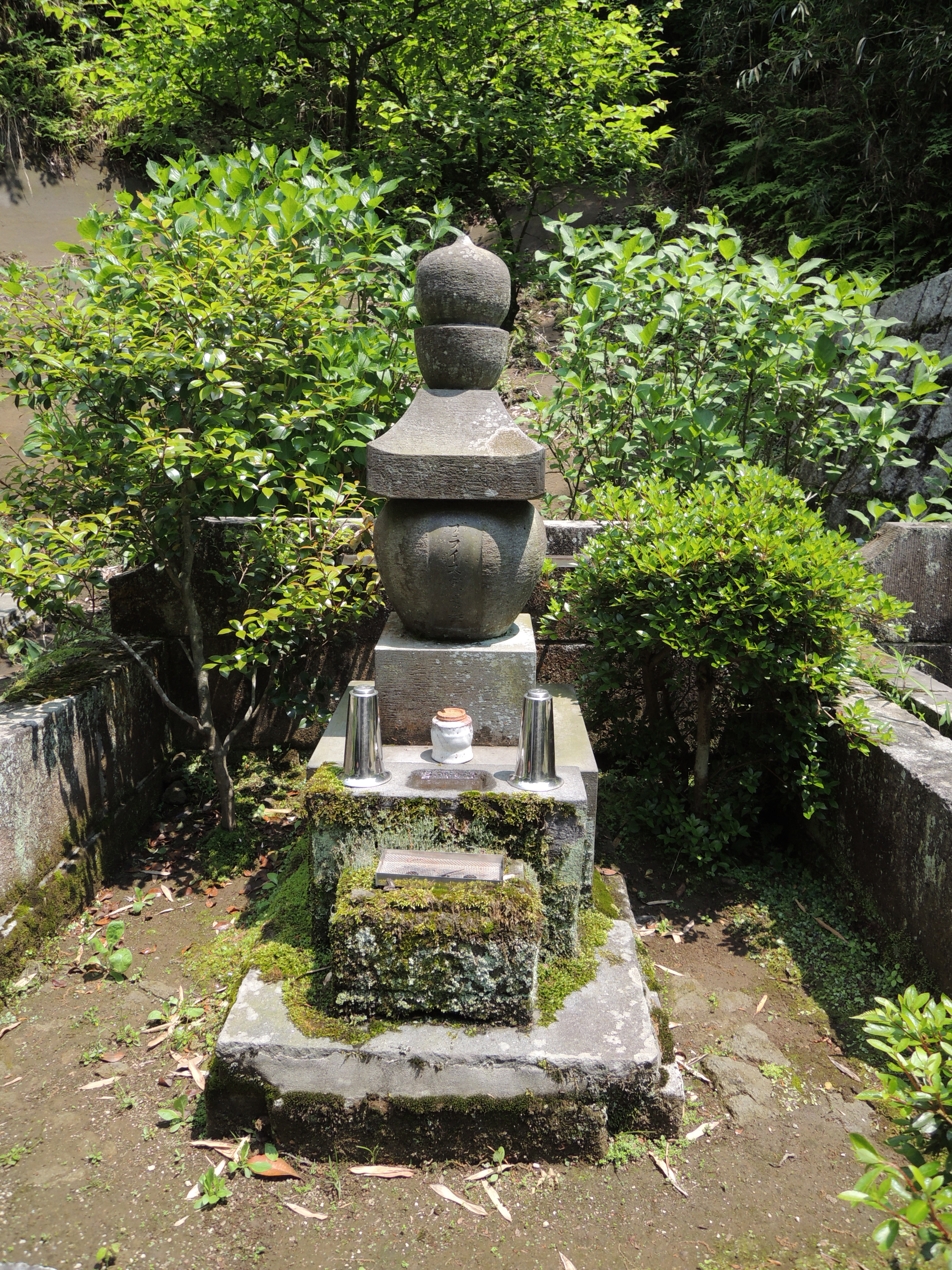 Tomb of Reginald Horace Blyth, 1898 - 1964